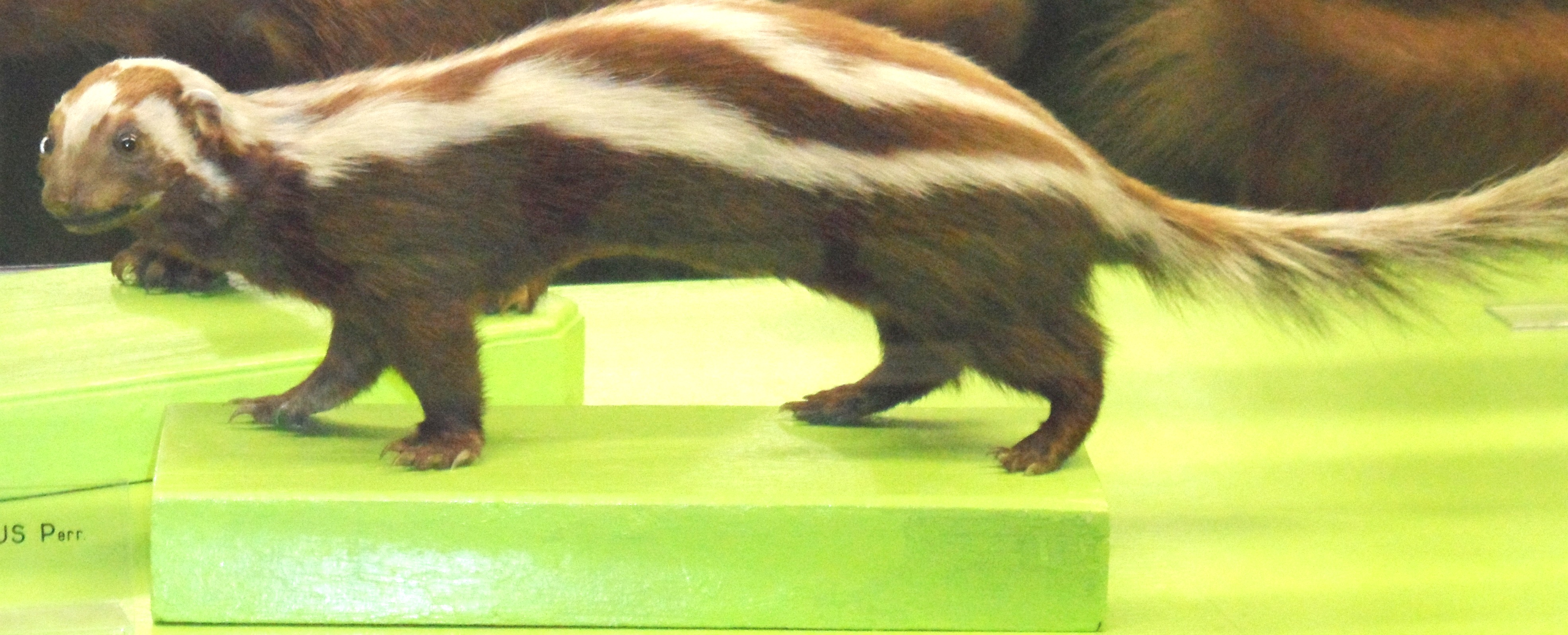 Zorilla on display in the Natural History Museum of Genoa